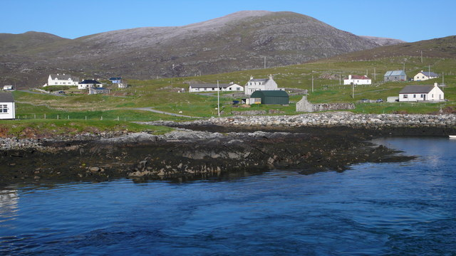 Buildings of Leverburgh. The prominent summit of Roineabhal in the distance.